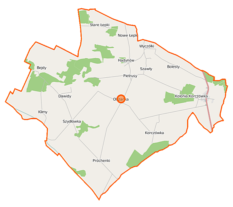 Map of Gmina Olszanka, Poland This map of Olszanka (gmina w województwie mazowieckim) was created from OpenStreetMap project data, collected by the community. This map may be incomplete, and may contain errors. Don't rely solely on it for navigation. Border coordinates52.204522.5570←↕→22.771952.0871